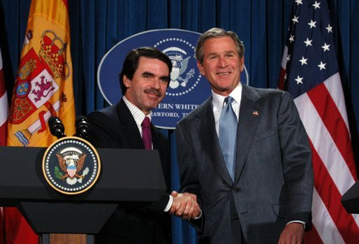 George W. Bush and President Jose Maria Aznar of Spain shake hands at the end of a joint press conference at the Bush Ranch in Crawford, Texas, Saturday, Feb. 22, 2003.